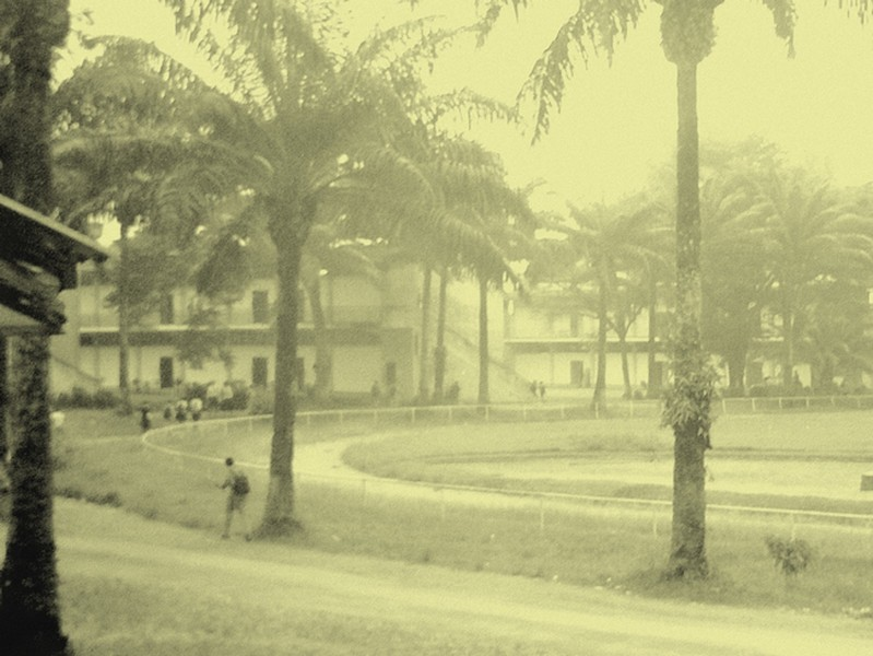 Le Lycée en 1980